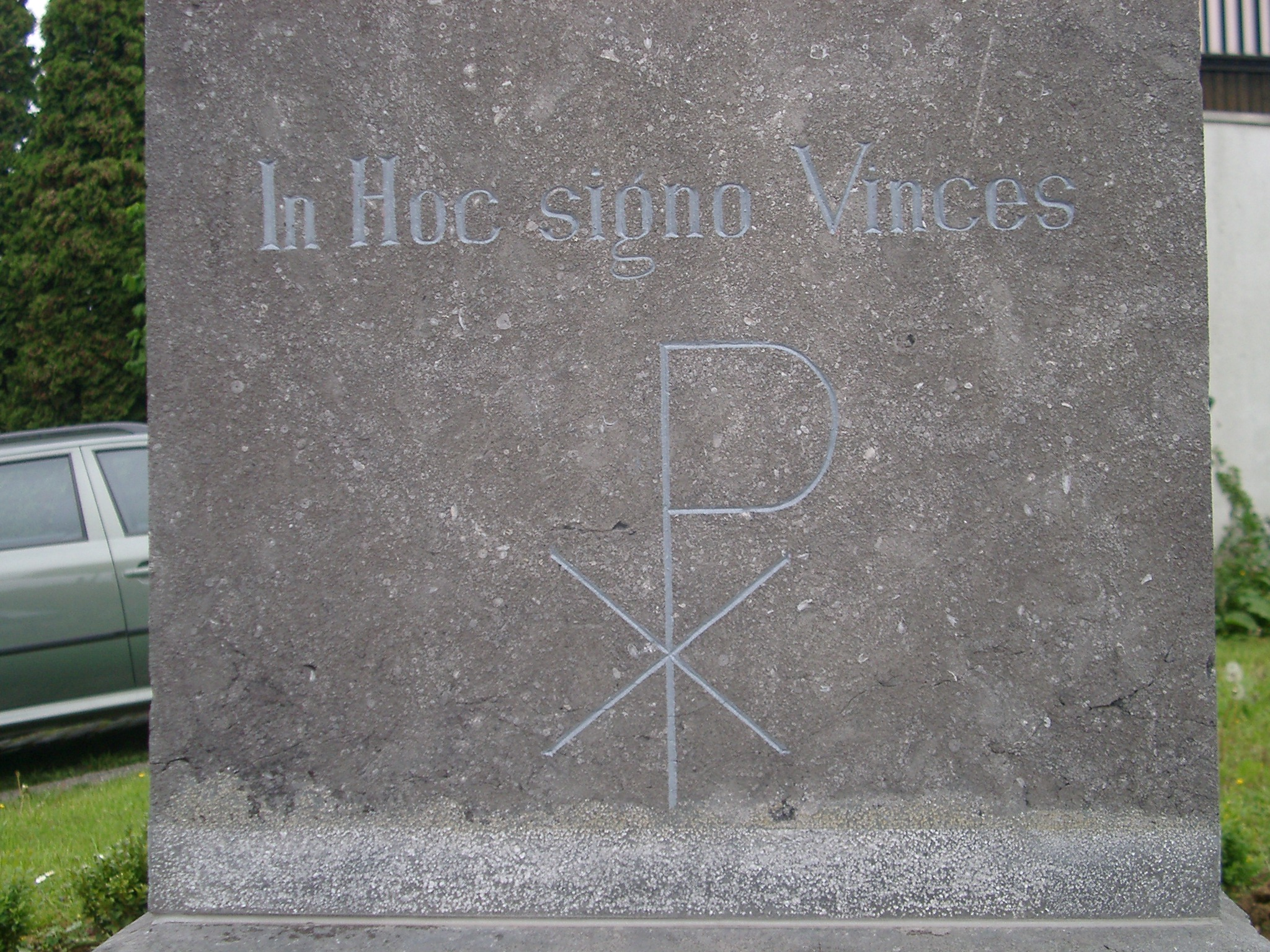 Stone cross with Latin inscription, Brenig, part of Bornheim, Rhineland, Germany.